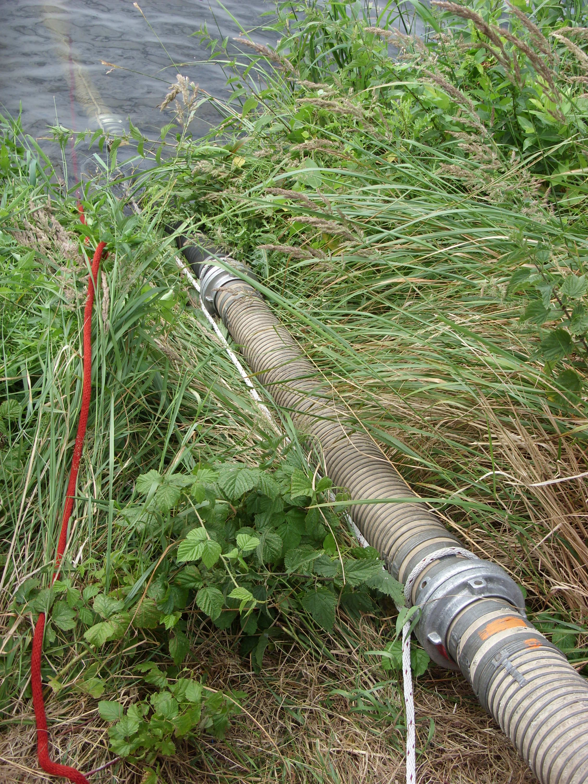 Suction line of the fire brigade